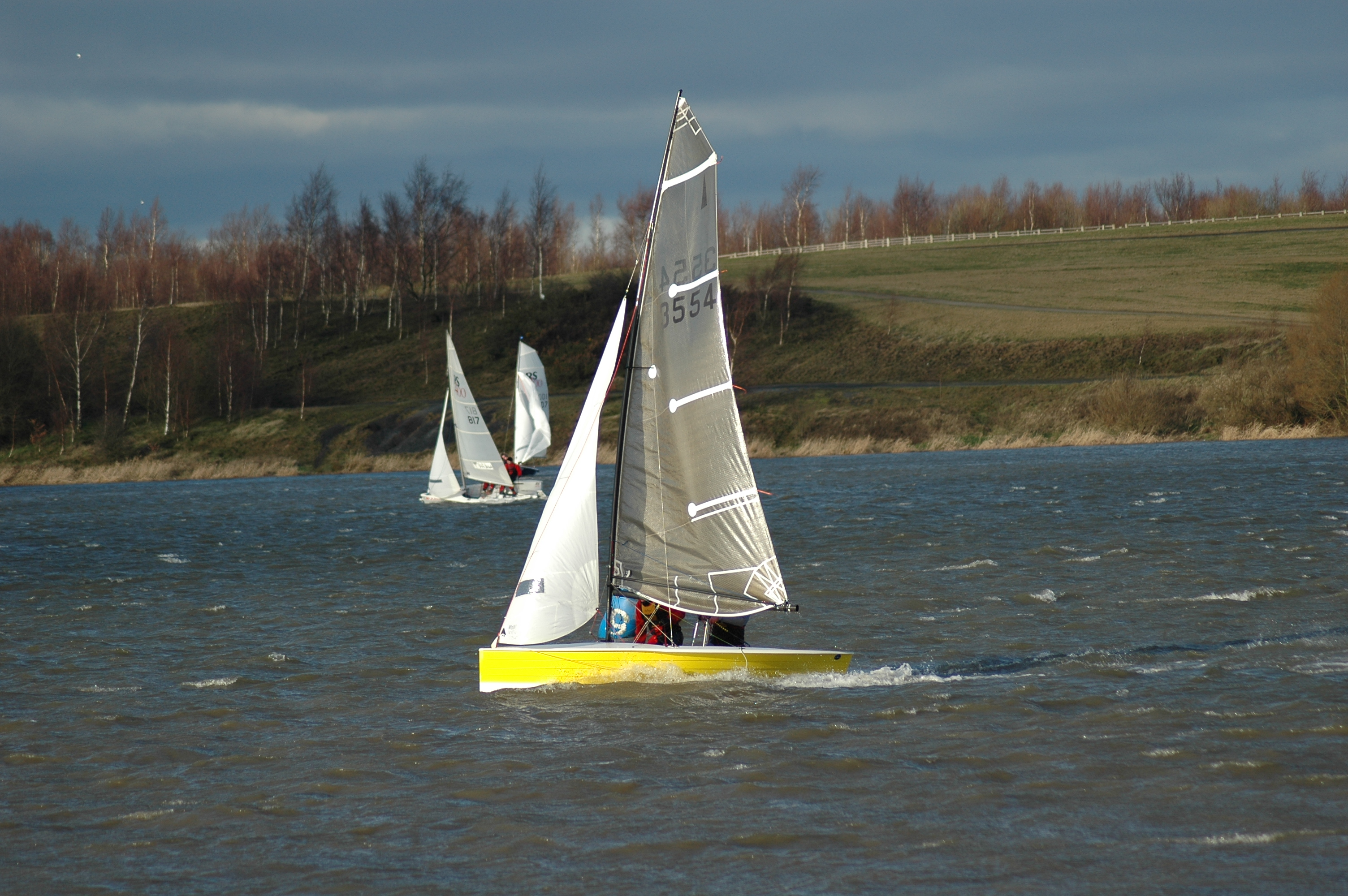 Merlin Rocket one-design dinghy